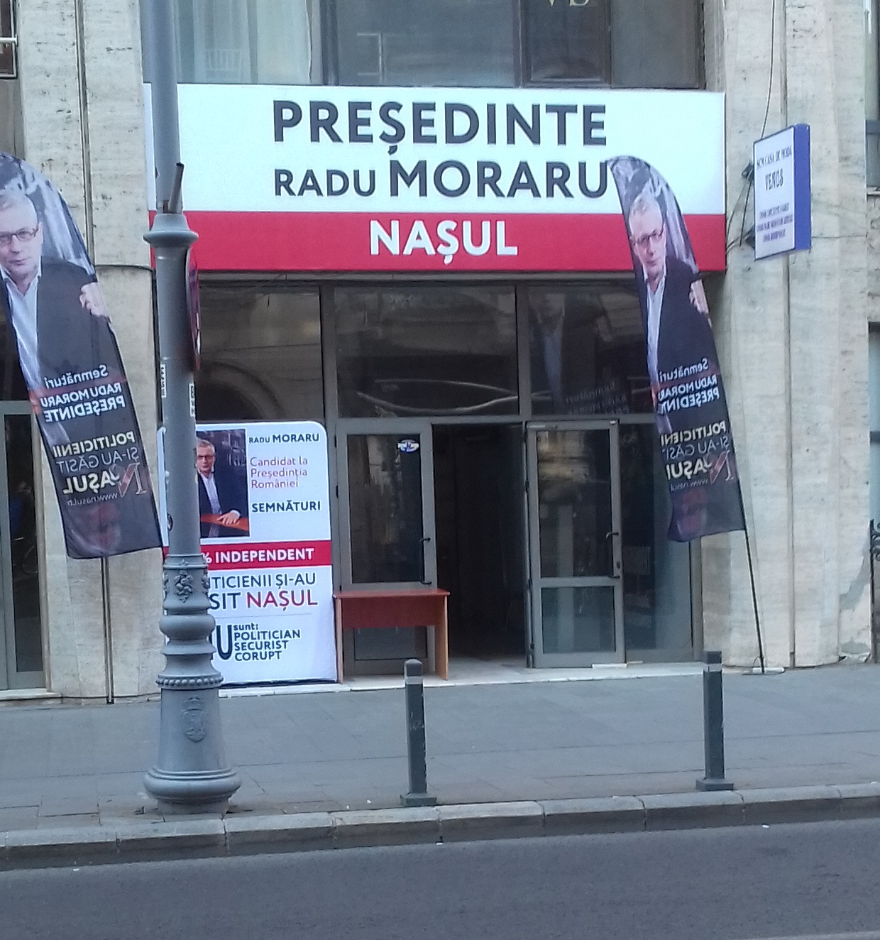 Radu Moraru campaign office in Calea Victoriei (Bucharest) for the 2019 Presidential election